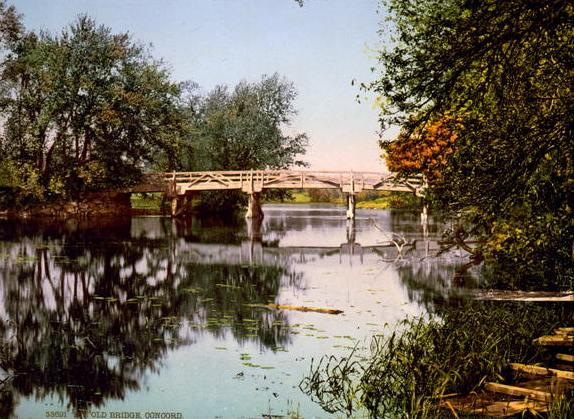 Tinted photograph of the Old Bridge over the Concord River, in Concord, Massachusetts, circa 1900.